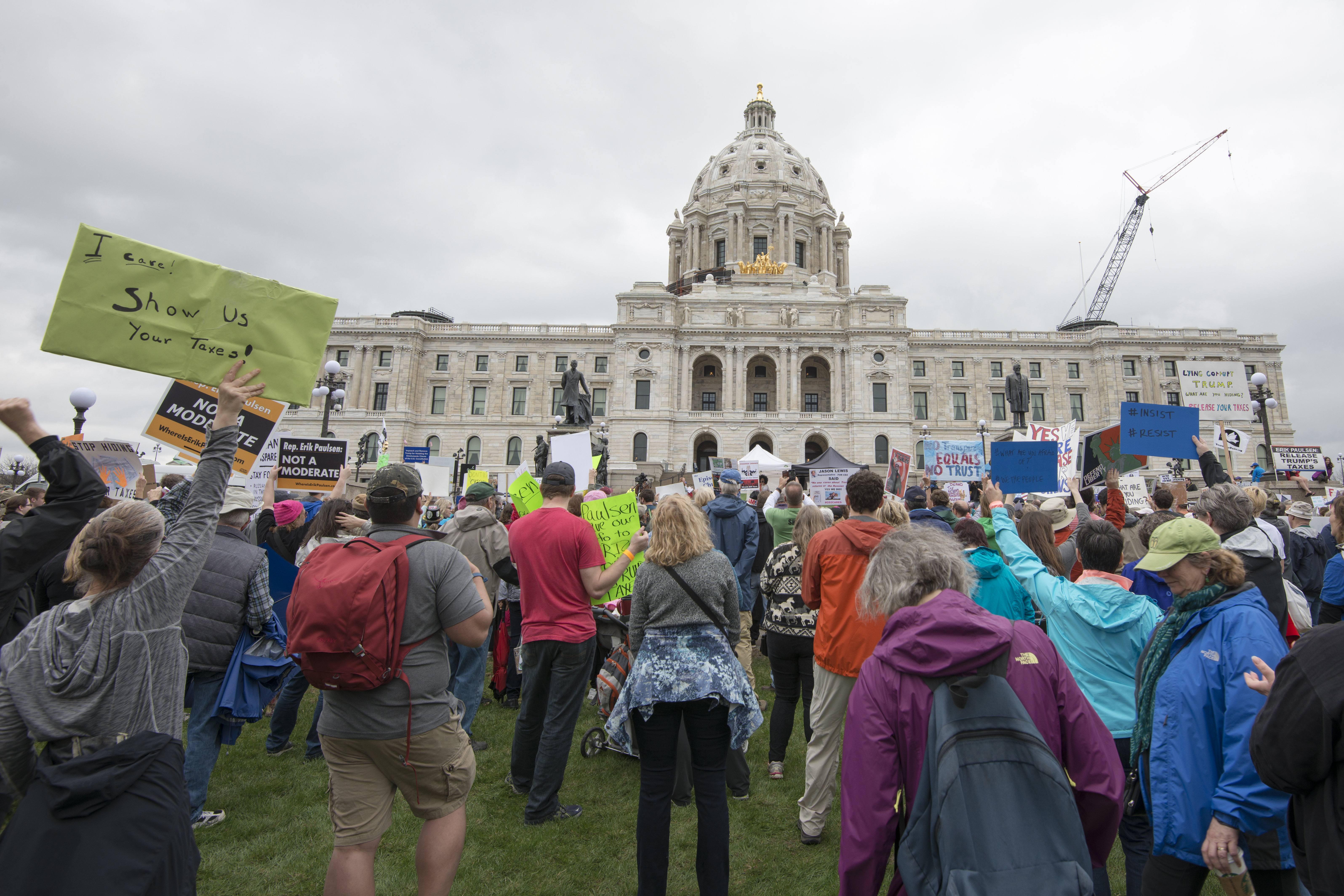 St. Paul, Minnesota April 15, 2017 Around 2500 people met at the Minnesota capitol grounds to call on Republican President Donald Trump to release his returns, divest his holdings, and disclose his conflicts of interest. 2017-04-15 This is licensed under the Creative Commons Attribution License. Give attribution to: Fibonacci Blue